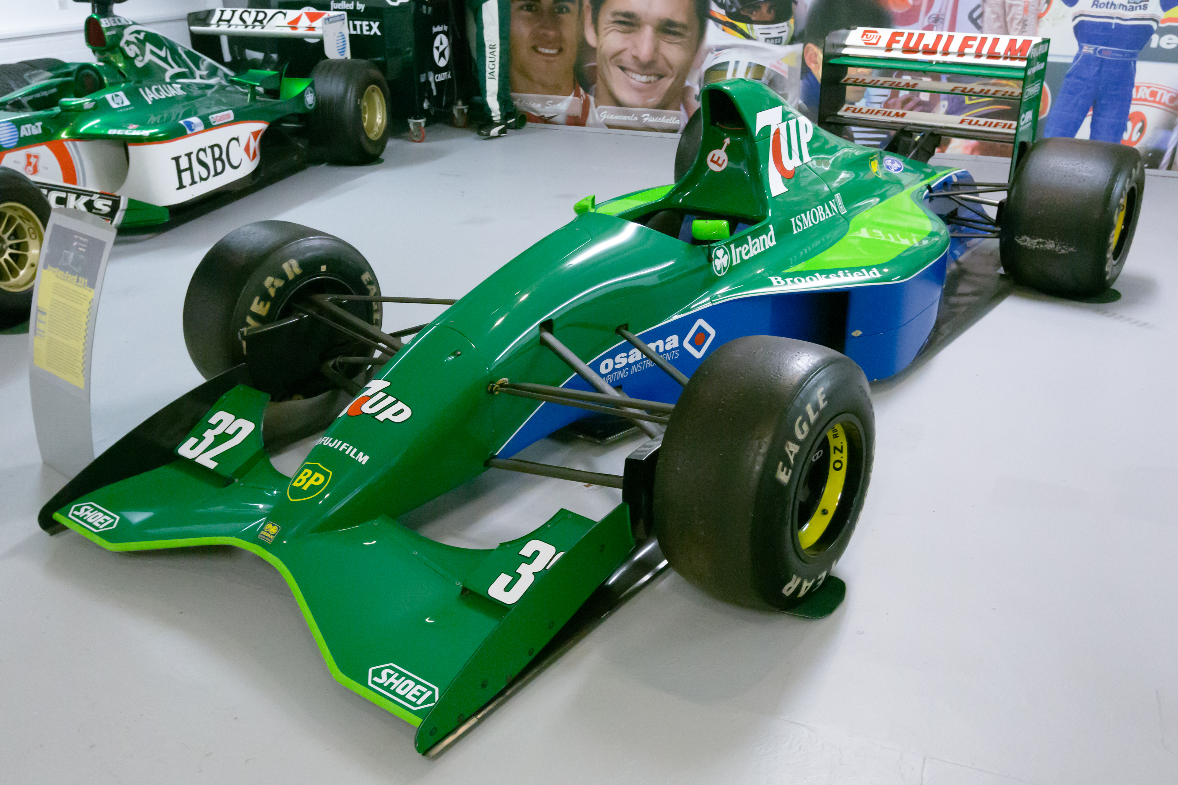 1991 Jordan 191